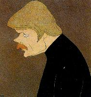 Caricature of Maxim Gorky by Valery Carrick from magazine "Leshiy" ("Леший")